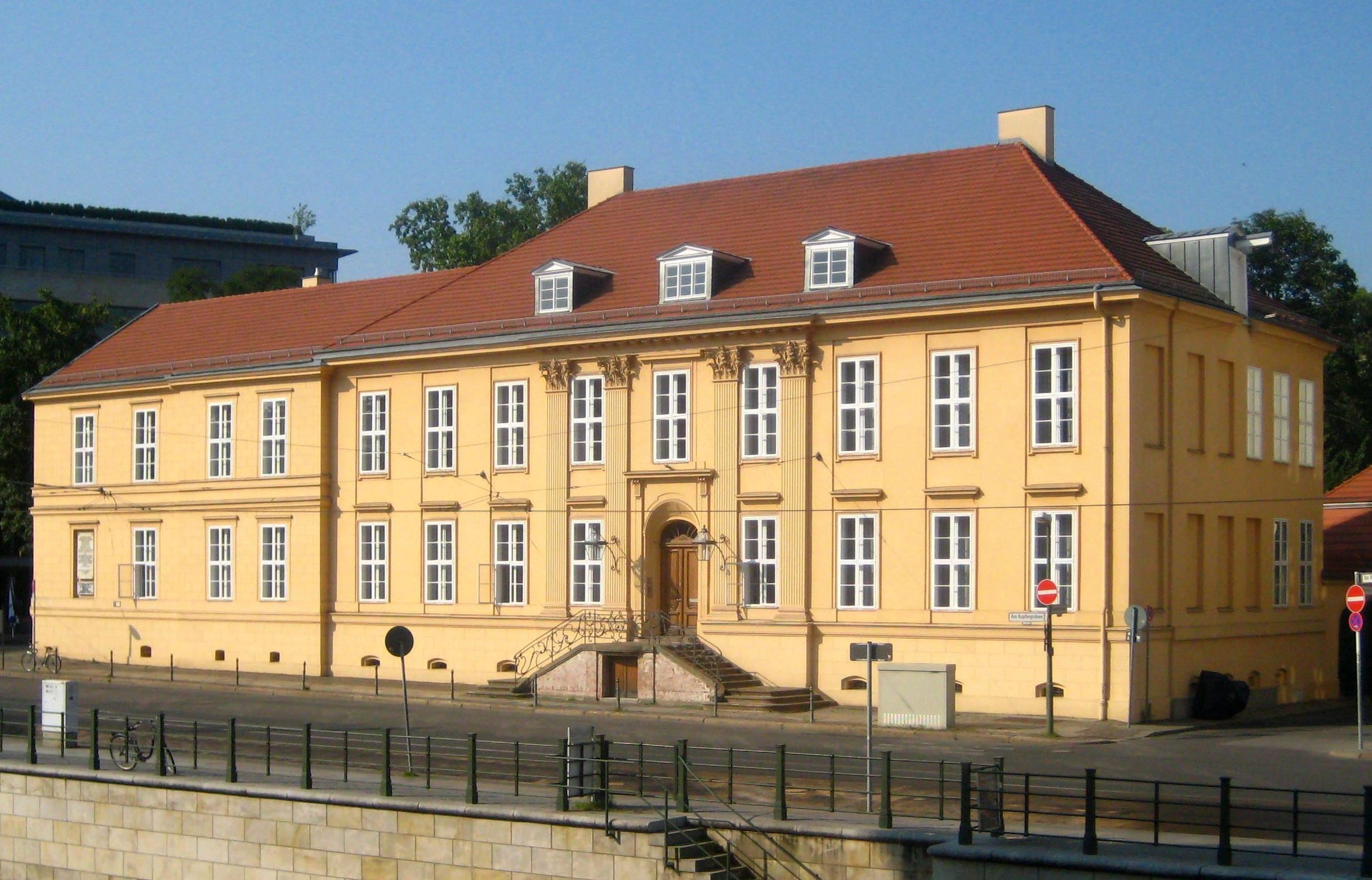 The Magnushaus on the street Am Kupfergraben in Berlin-Mitte as seen from the Pergamonmuseum on Museum Island. The town house was built to a design by Georg Friedrich Boumann Jr. for Privy Counsillor Johann Friedrich Westphal. Construction was completed in 1756. The left part of the front building was added in 1761 and received a second story and a classicist facade in 1822. In 1840, physicist Heinrich Gustav Magnus bought the house and furnished it with a laboratory, a lecture room and his private collection of physical instruments. The building was only slightly damaged in WWII and served as seat of the German-Soviet Friedship Society after the war. Starting in 1958, the Physical Society of the GDR resided here. The house is now seat of the German Physical Society. It has been designated a historic landmark.